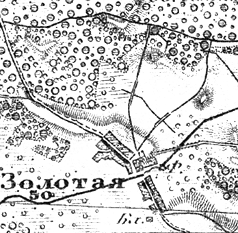 Zolote on the map "Военно-топографическая карта Российской Империи" (known as "Schubert's map"), XX 5, 1866-1887 (issued in 1911).